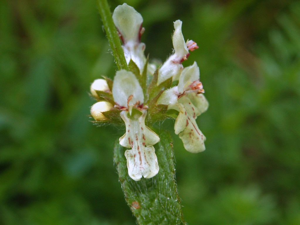 Stachys recta - Vì Superiore, Genova, Italy